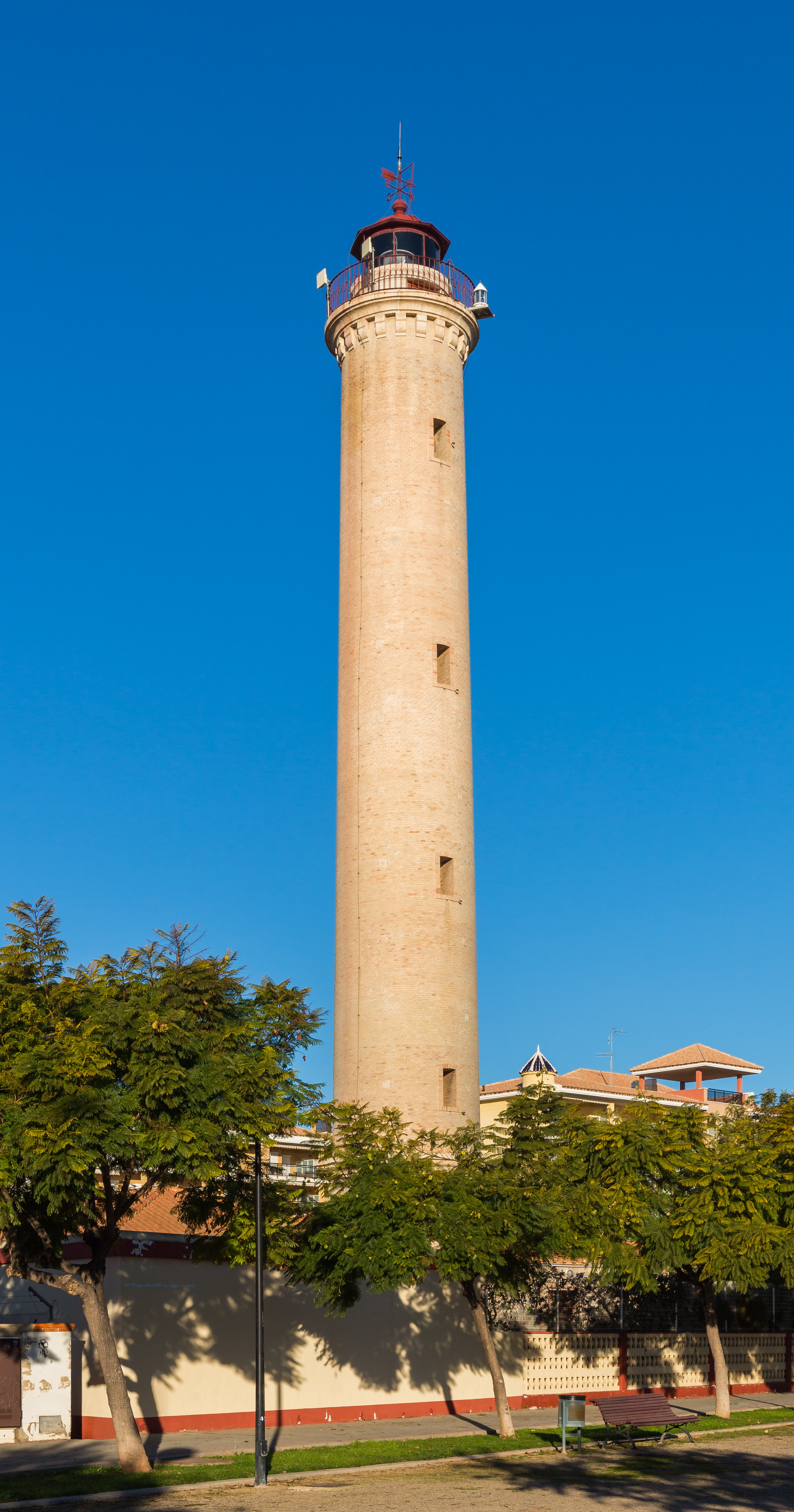 Lighthouse of Canet de Berenguer, España